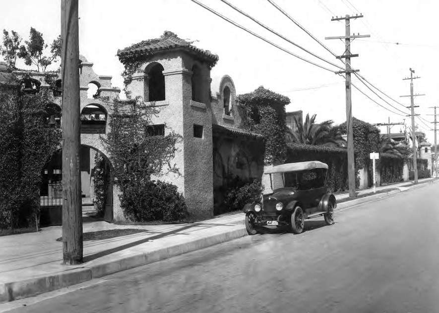 Street view of the Selig Polyscope Company studio in the Edendale neighborhood of Los Angeles, California, ca. 1910.